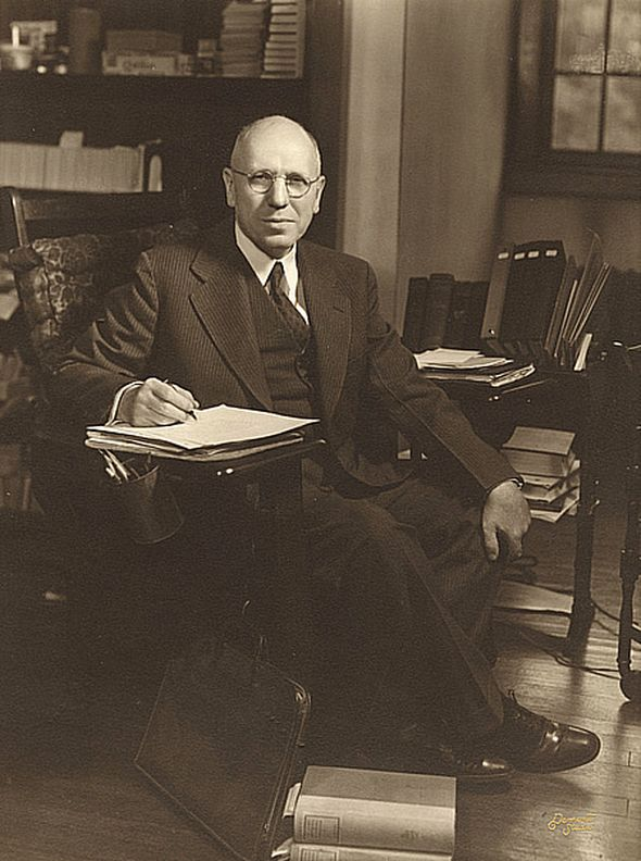 Photo of Douglas Southall Freeman in his elder years